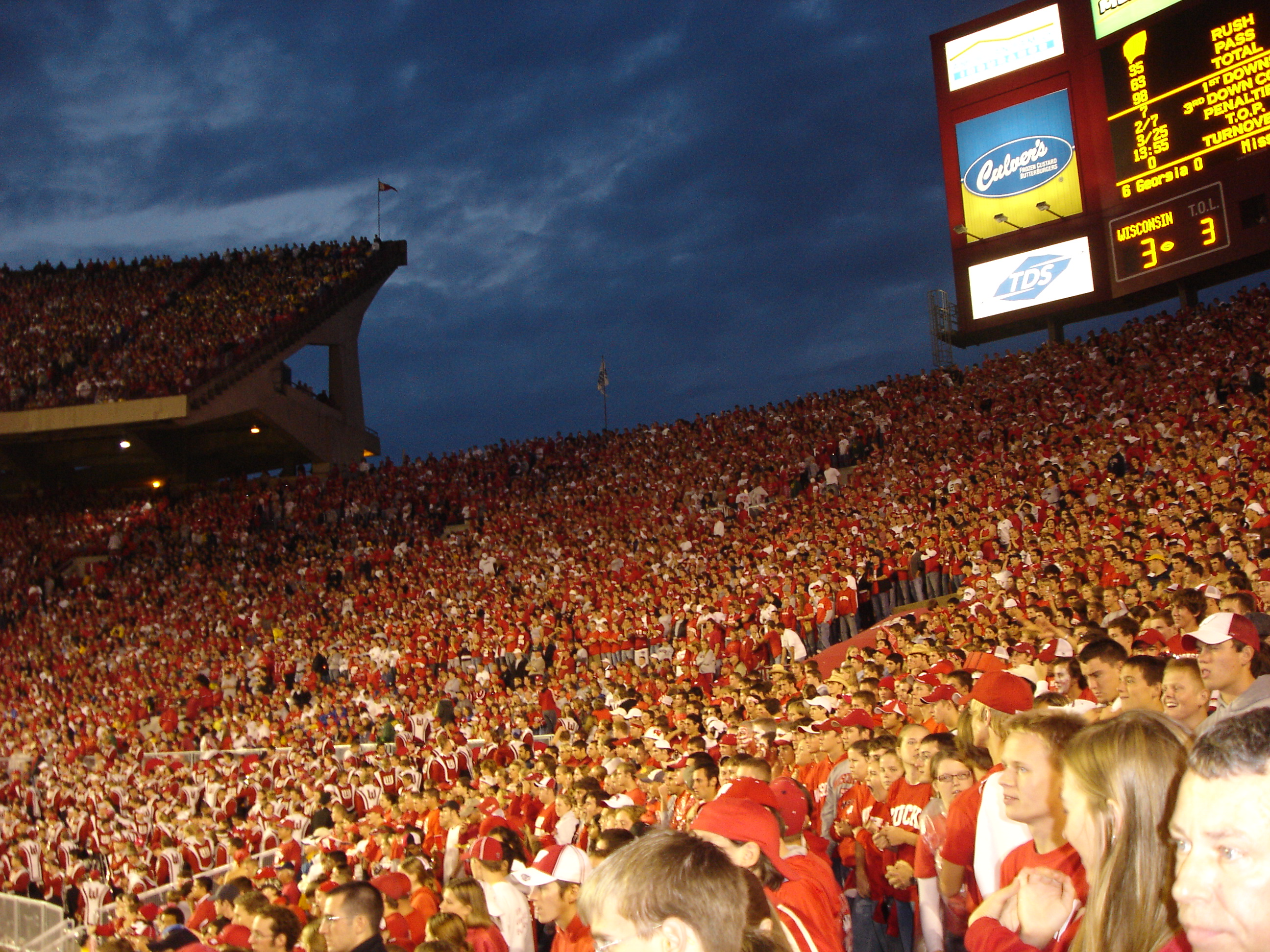 Photograph by User OhSuch181 Category:Images of universities and colleges of Wisconsin